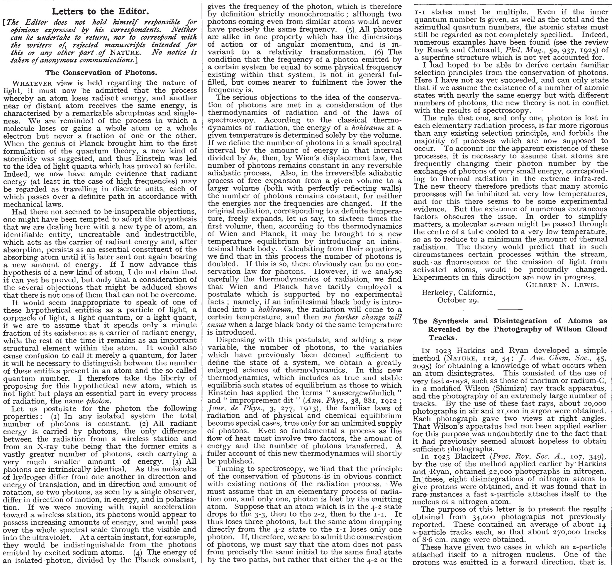 1926 Gilbert N. Lewis letter which brought the word "photon" into common usage